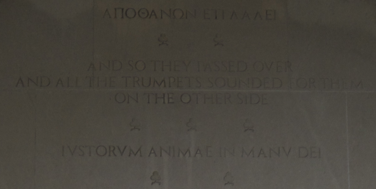 One of the inscriptions on the Soldier's Tower at the University of Toronto. This one forms the start of panel 3 of the 1914-1918 list. Inscription: apothanōn eti lalei. And so they passed over / and all the trumpets sounded for them / on the other side. Iustorum animae in manu Dei.